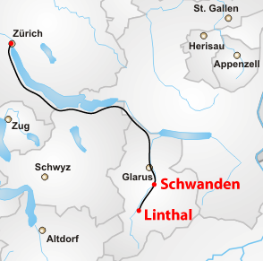 Map of the Glarner Sprinter train route (complete)